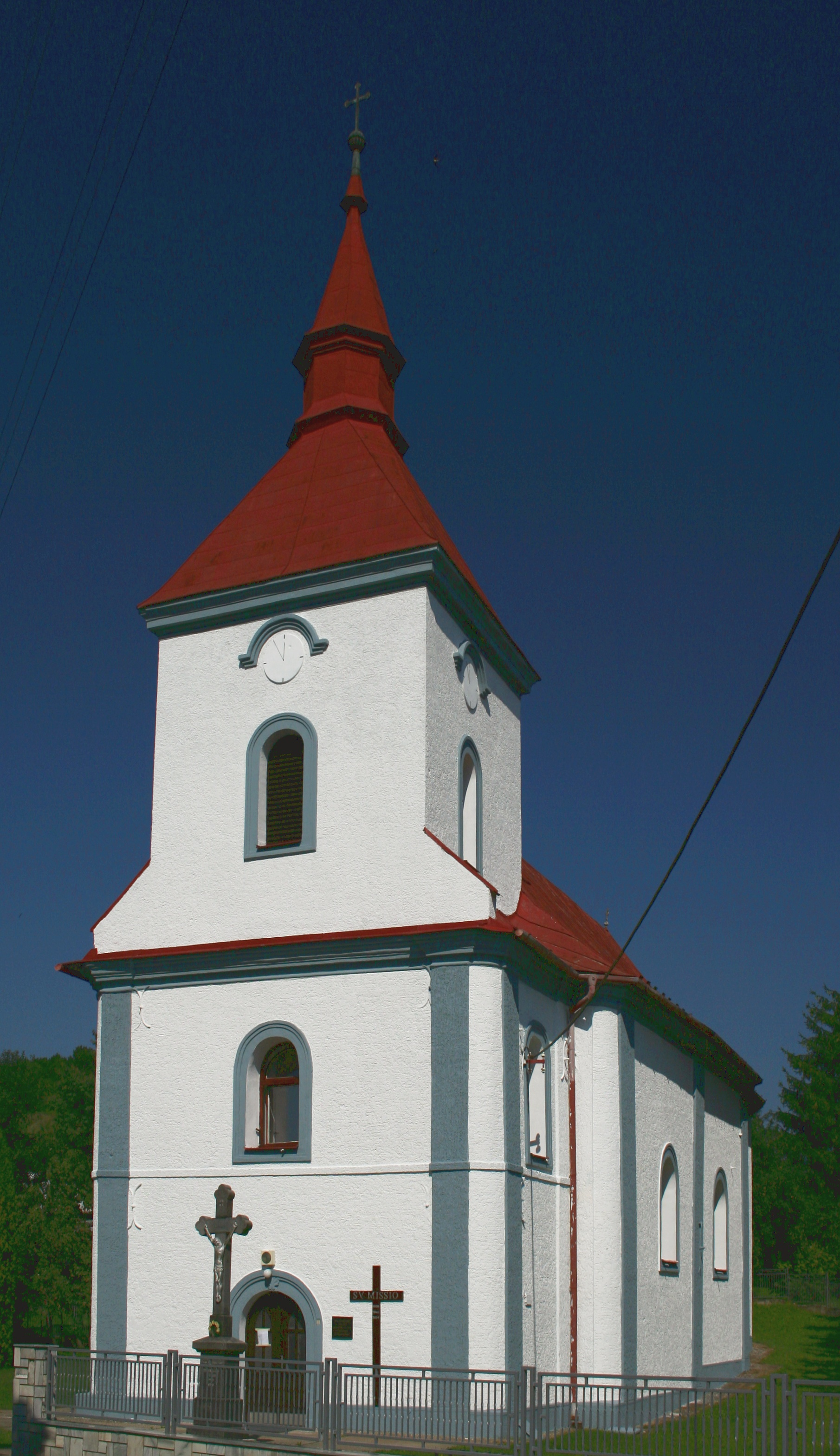 church in Lukačovce, village in Slovakia